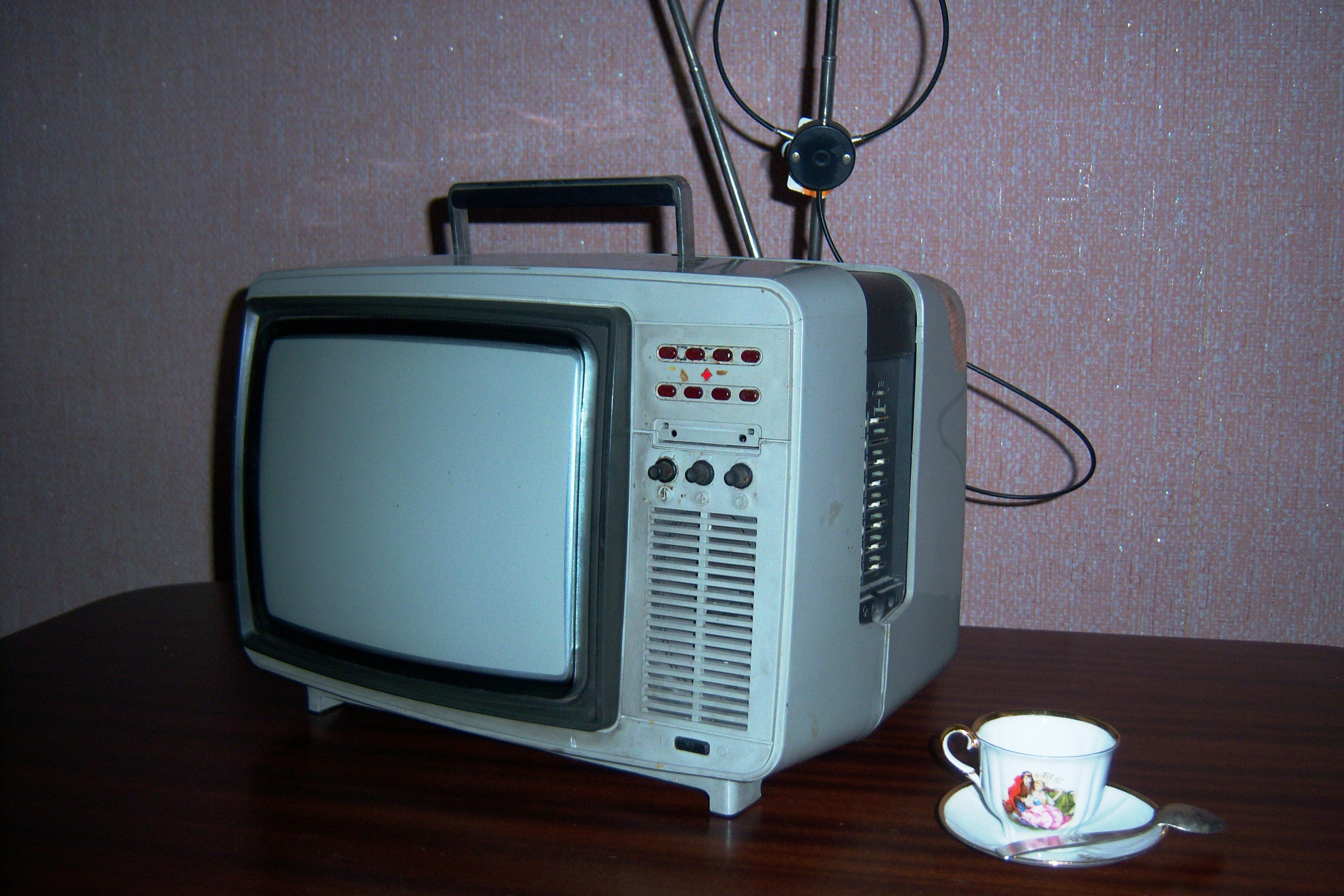 Portable colour TV set Šilelis S-445D (Shilyalis), screen 30 cm, made in Lithuania